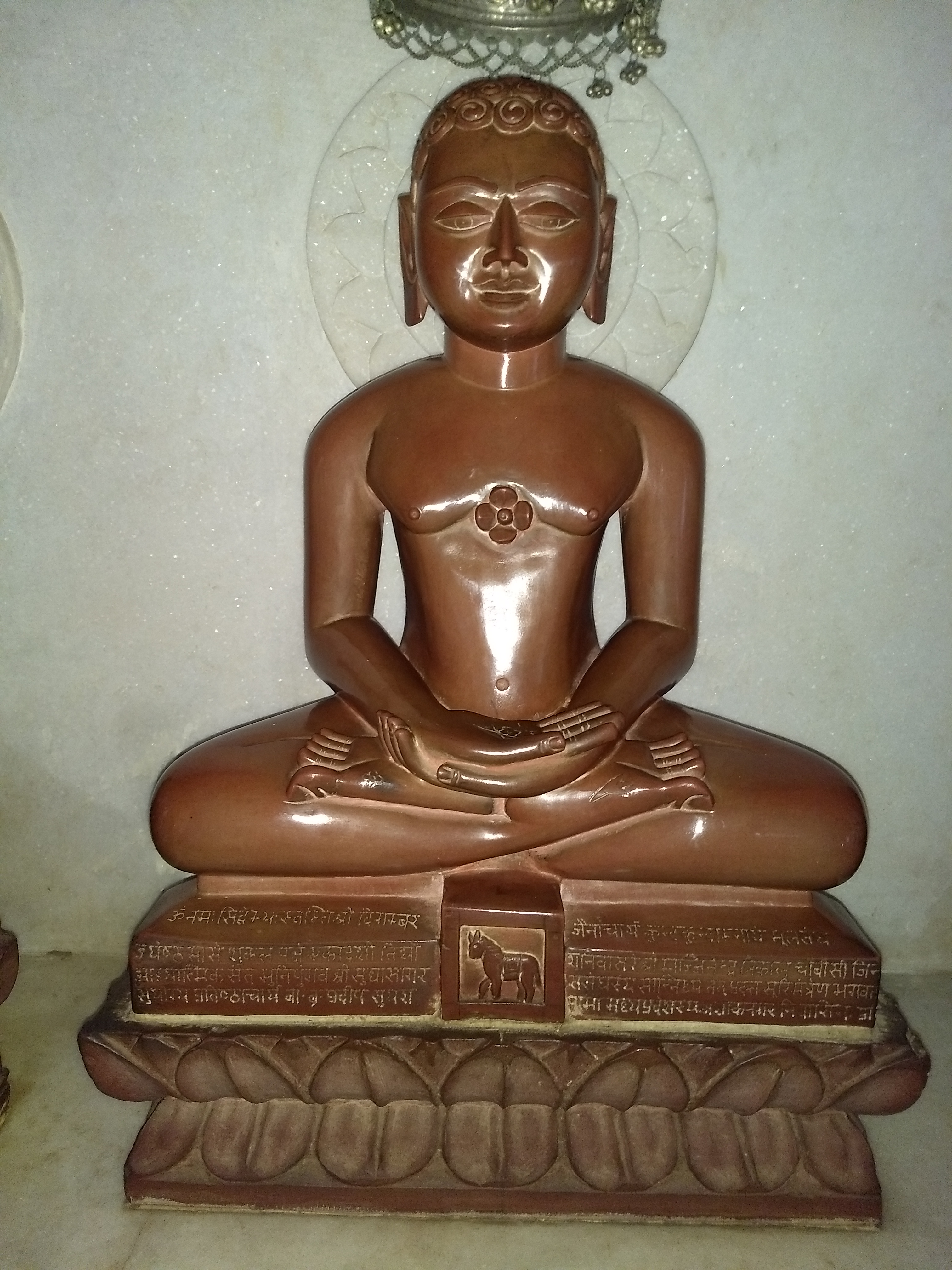 Jain statues in Anwa, Rajasthan